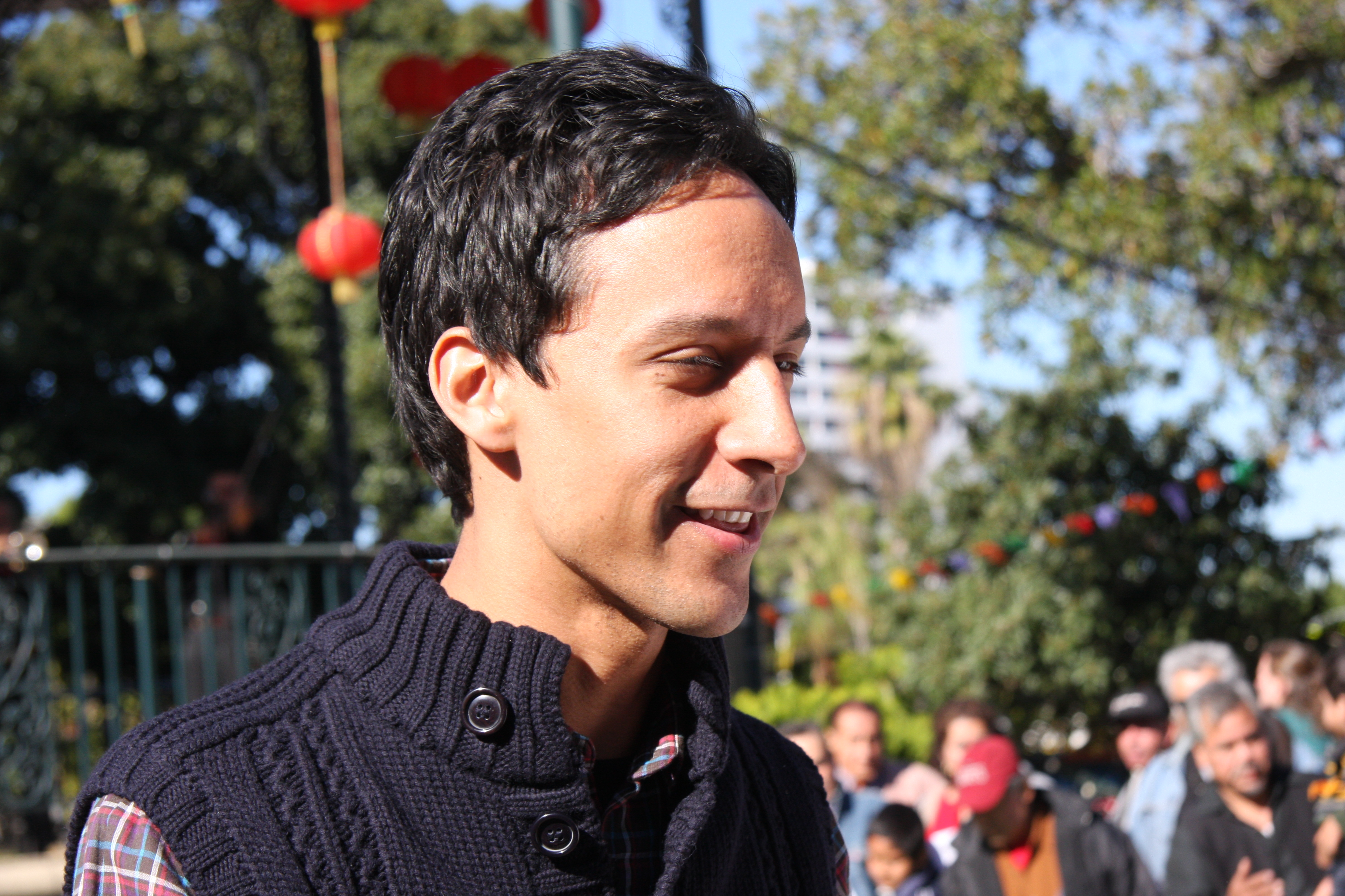 Danny Pudi at Play for LA Hole 9 Olvera Street